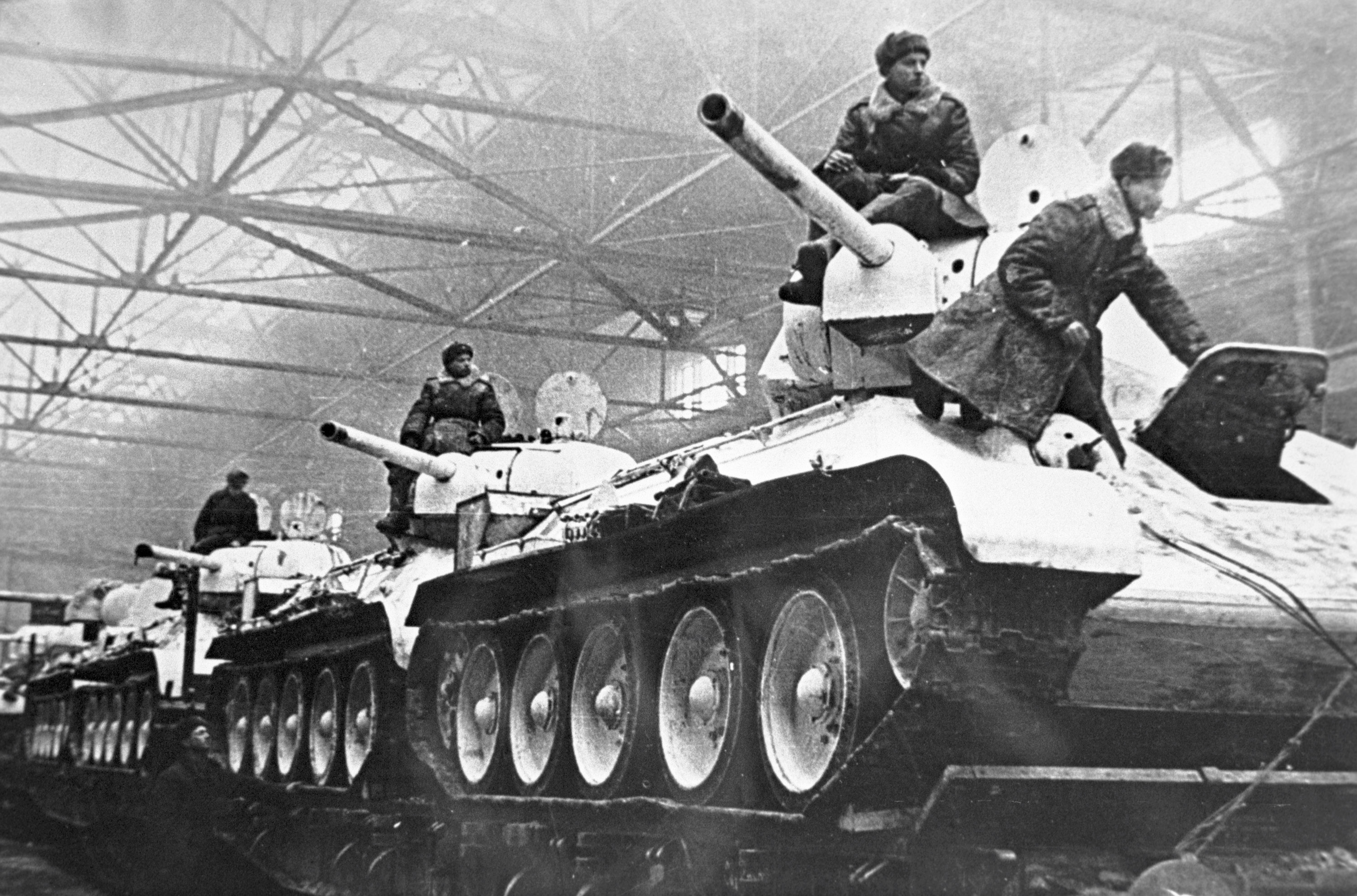 “Tanks going to the front”. T-34 Tanks mod. 1942 made at the Uralmash plant going to the front.